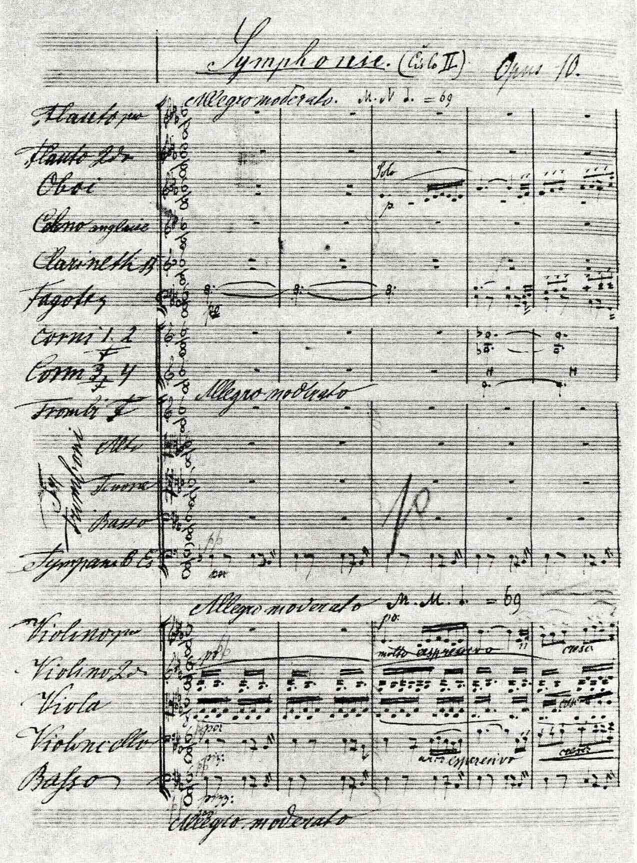 The first page of the score of Dvořák's third symphony